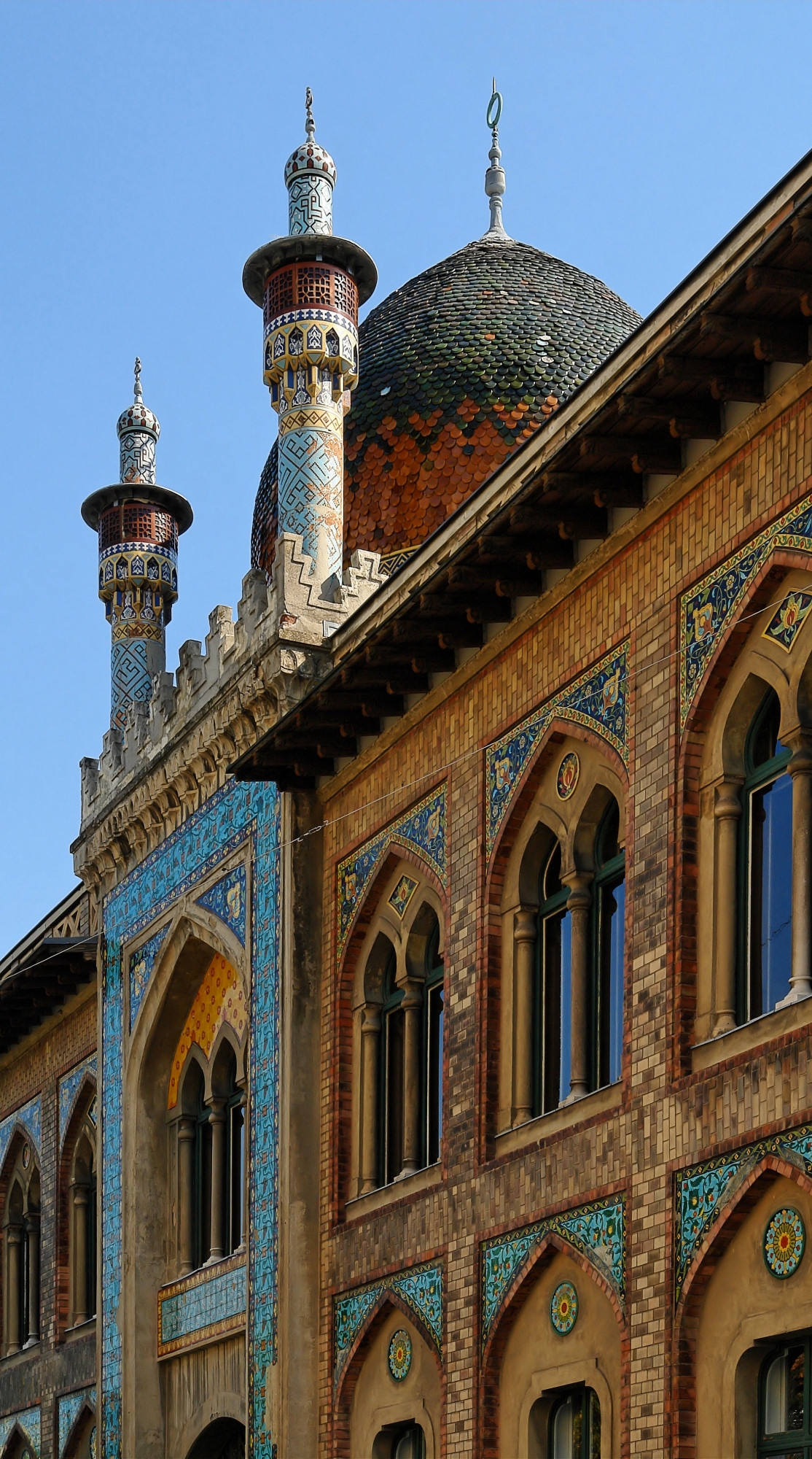 Zacher insecticide factory (Vienna, Austria) commissioned by Johan Evangelist Zacherl Polychromed brick building with pointed arches, two minarets and a dome, explicitly oriental in style. The Pyrethrum powder, raw natural material used for his insecticidal powder called "Zacherlin", was imported from Tifflis. Architect: Hugo (von) Wiedenfeld Execution: Karl Mayreder Post-processing: noise reduction and perspective correction